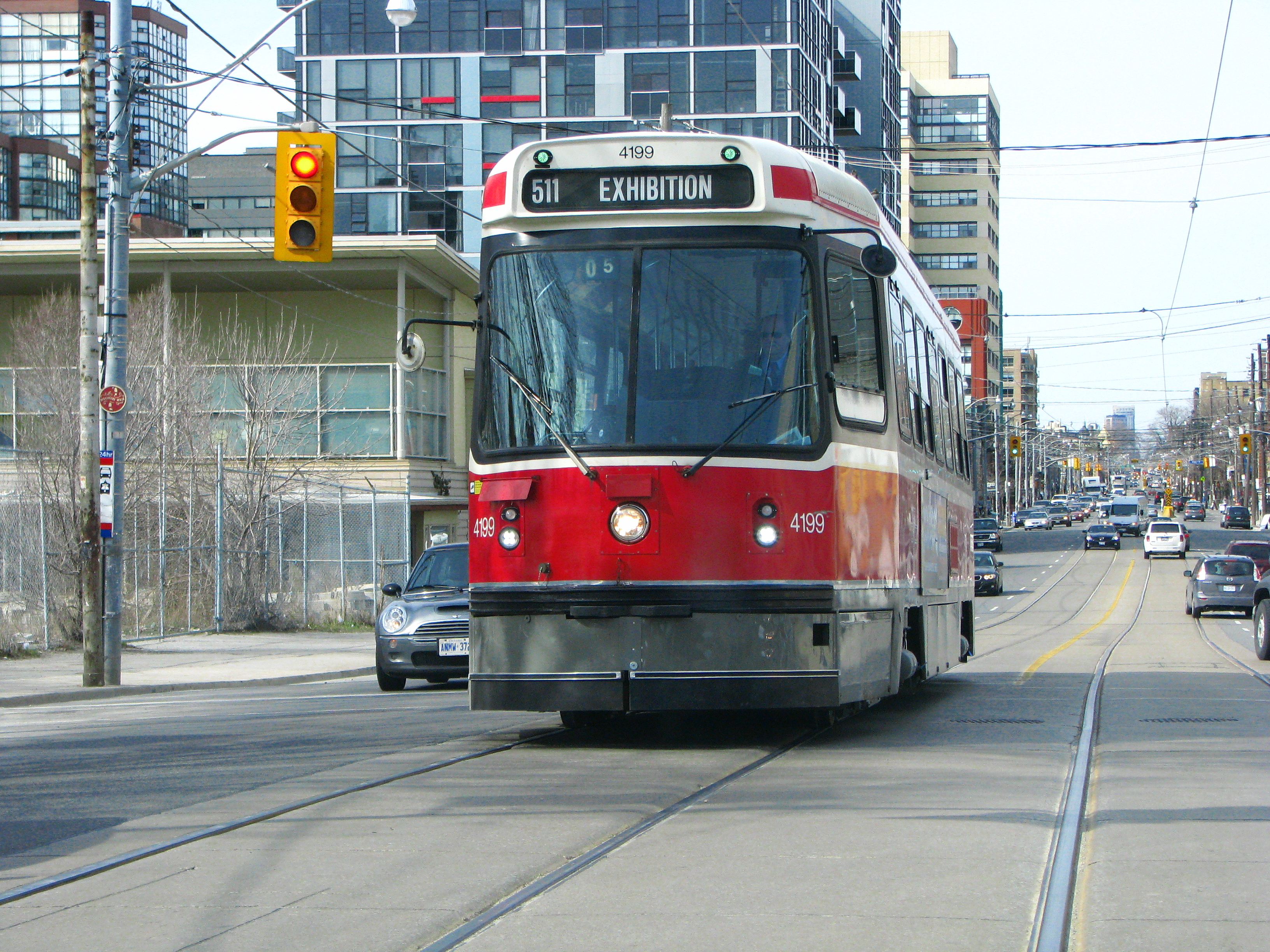 Streetcar 4199 southbound on the 511 Bathurst route